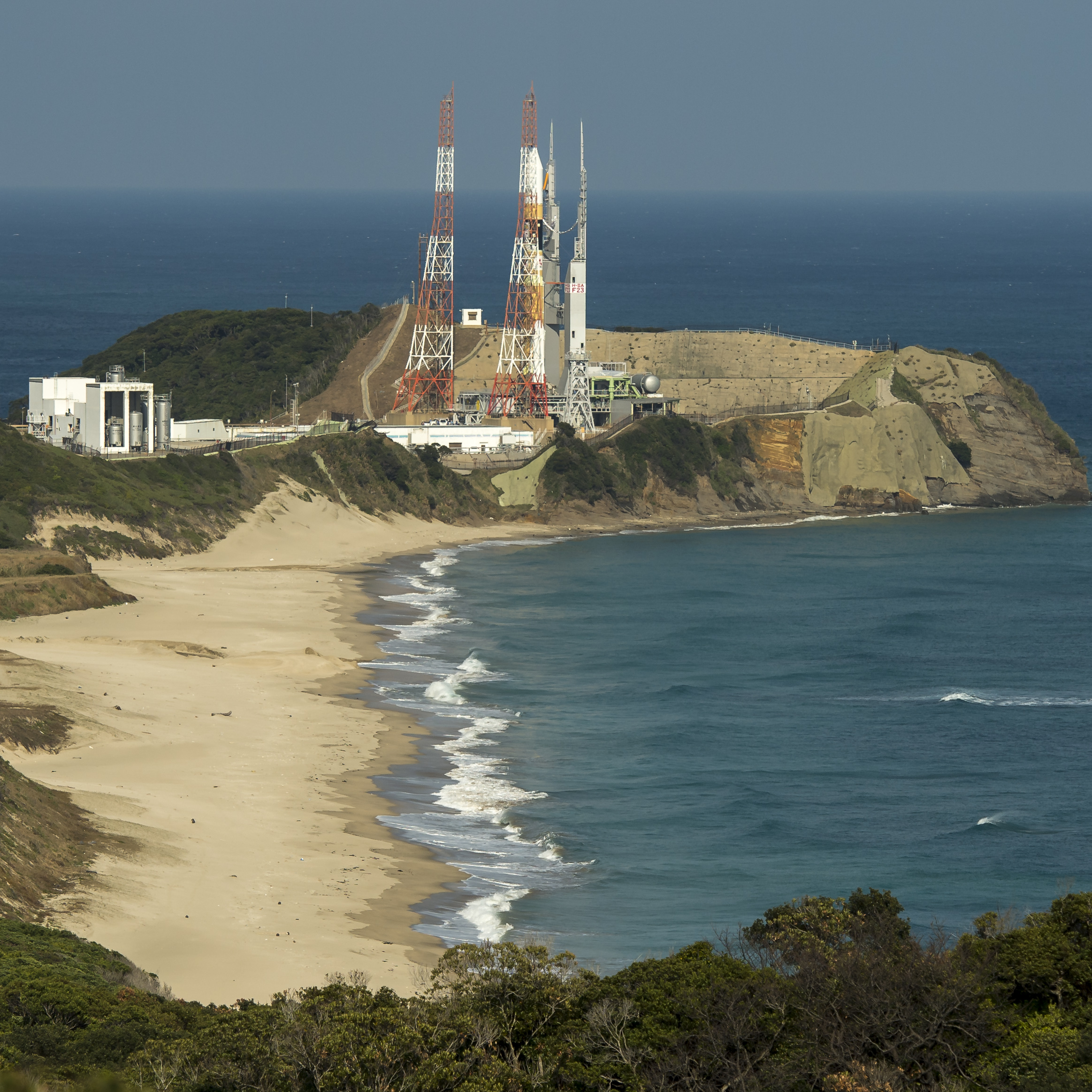 A Japanese H-IIA rocket with the NASA-Japan Aerospace Exploration Agency (JAXA), Global Precipitation Measurement (GPM) Core Observatory onboard is seen on launch pad 1 of the Tanegashima Space Center, Thursday, Feb. 27, 2014, Tanegashima, Japan. Once launched, the GPM spacecraft will collect information that unifies data from an international network of existing and future satellites to map global rainfall and snowfall every three hours. Photo Credit: (NASA/Bill Ingalls)